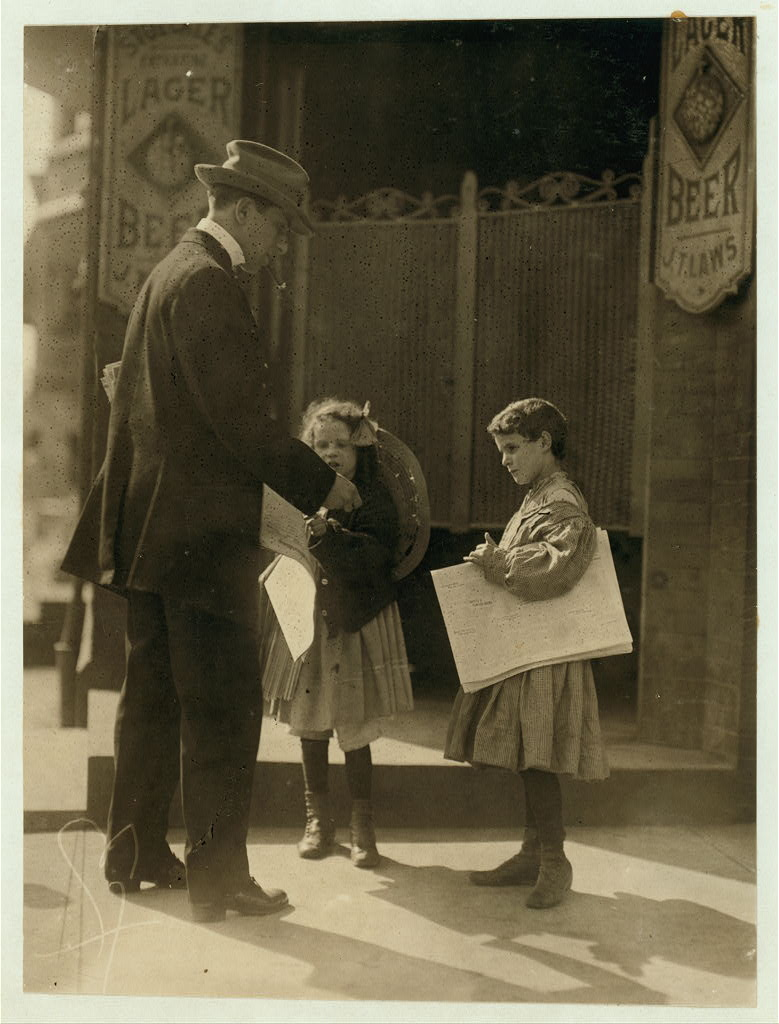 2 newsgirls. Location: Wilmington, Delaware.